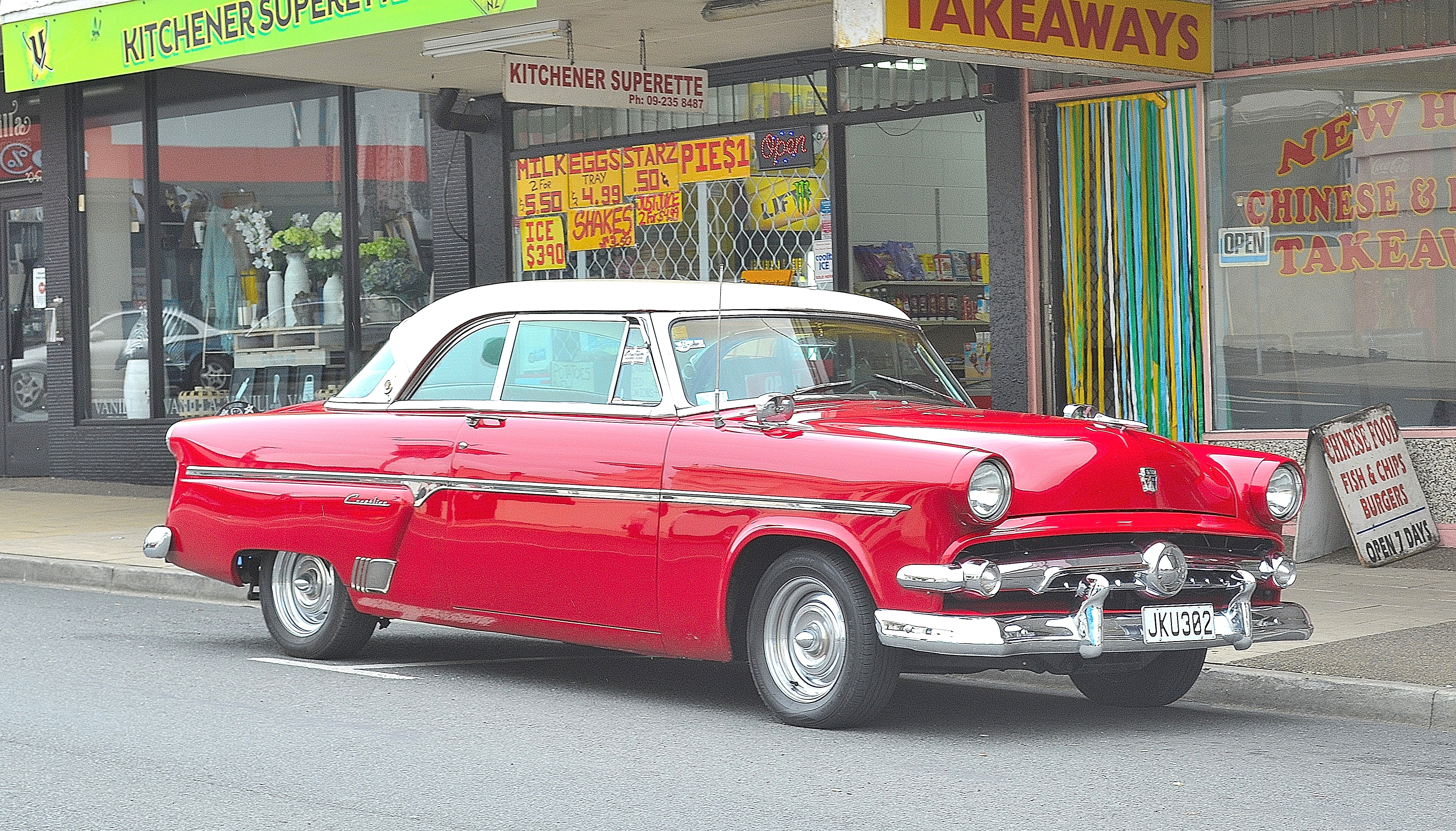 Waiuku.South Auckland,NZ